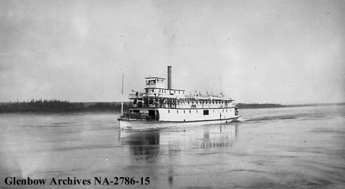 Hudson's Bay Company steamboat, Mackenzie River, on river in Northwest Territories.